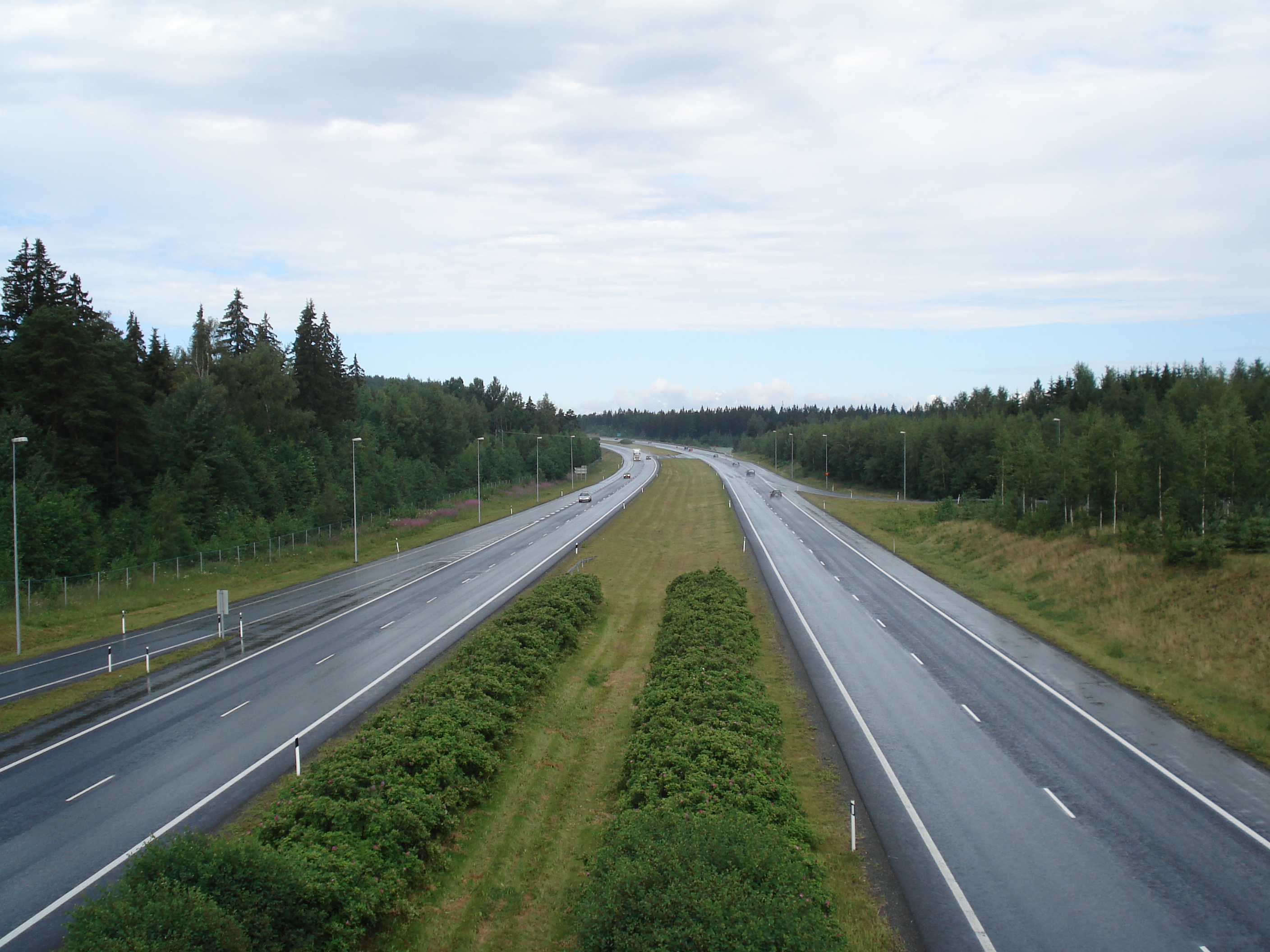 National road 3 (E12) in Parola, Hattula, Finland